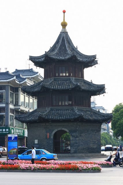 Siwang Pavilion of Yangzhou